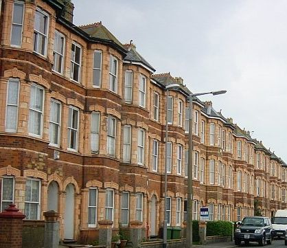 Terraced houses on Marine Parade, Sheerness I'm told this is known as Shrimp Terrace. No view of the sea from the ground floor but it lies just behind the sea wall on the right of the picture. Looking west towards the town.